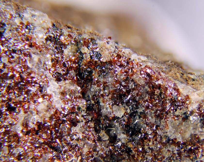 Black microcrystals of the very rare mineral freudenbergite from one of the only five known localities worldwide. Associated mineral is orange-brown rutile. From: Kaskasnyunchorr, Khibiny Massif, Kola, Russian Federation.